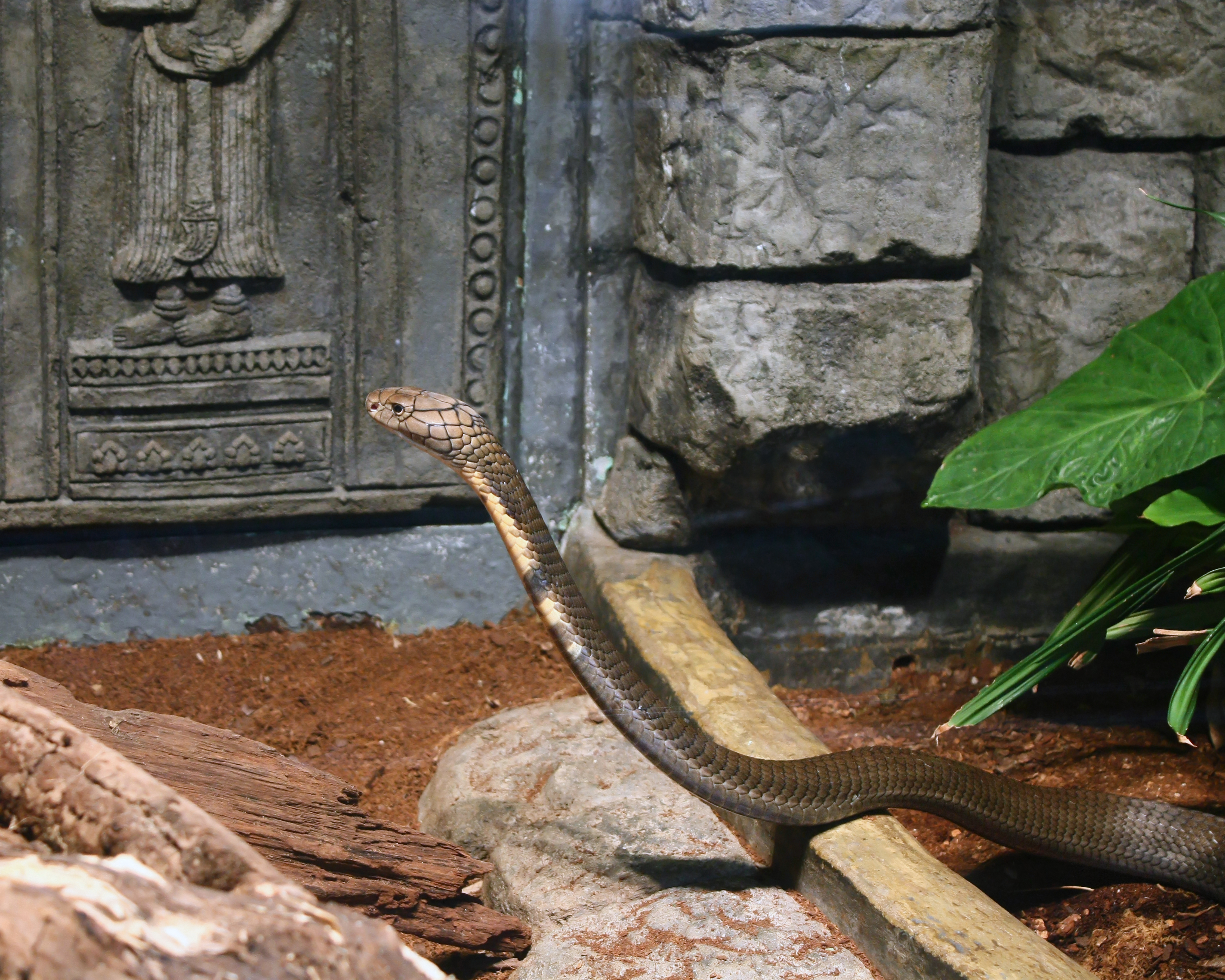 King cobra at the Cincinnati Zoo.